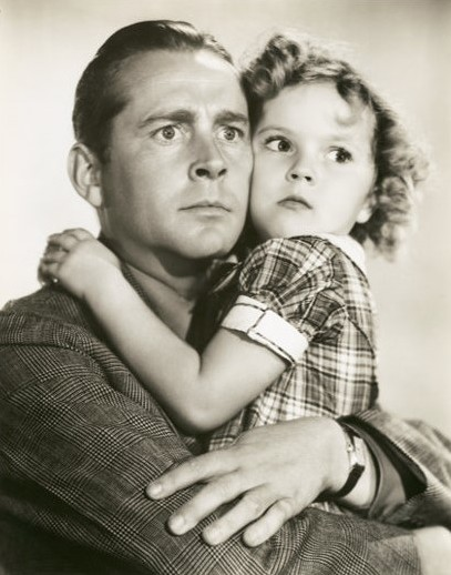 Press photograph, Shirley Temple in "Bright Eyes" with James Dunn, 1934 film.